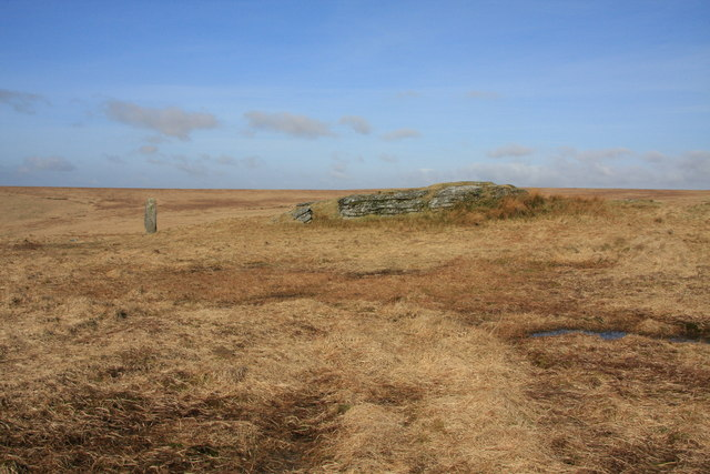 Devil's Tor and Beardown Man A fancy name for a unexciting tor.